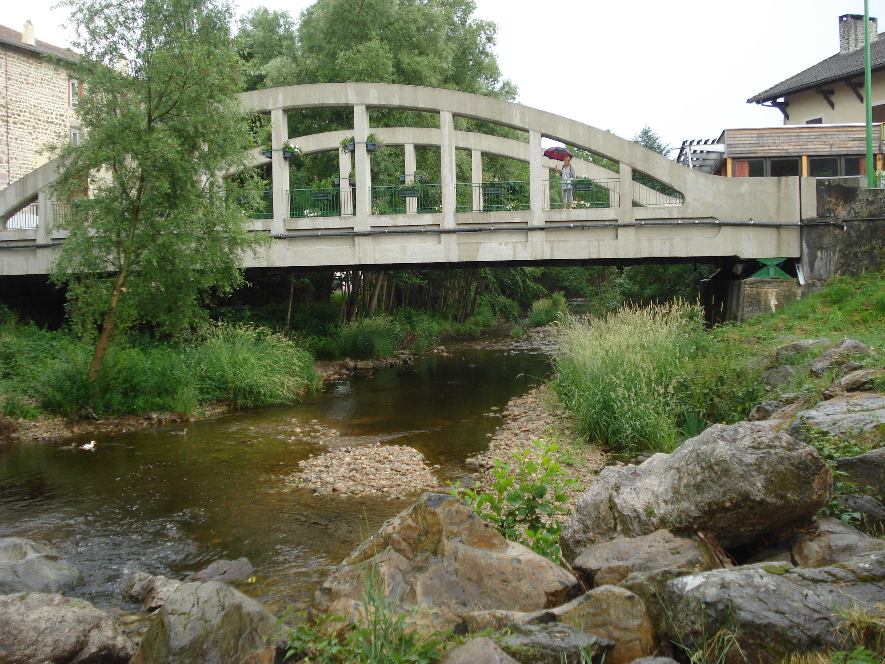 Vorey-sur-Arzon (Haute-Loire, Fr), bridge over Arzon River near its confluens with Loire River.